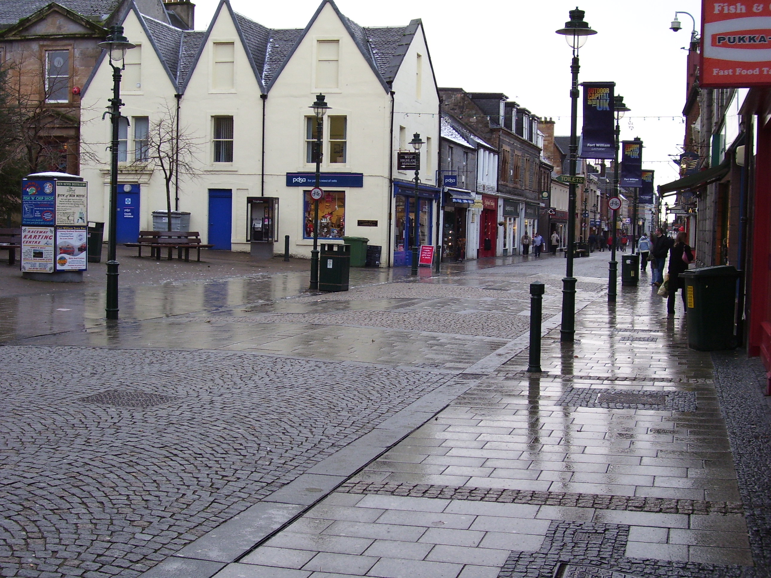 View of the main pedestrianised High Street, Fort William, Nov 2005